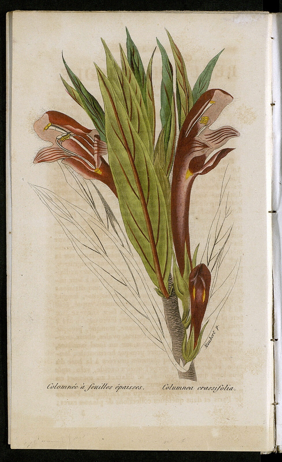 Columnea crassifolia Brongn. - Gesneriaceae